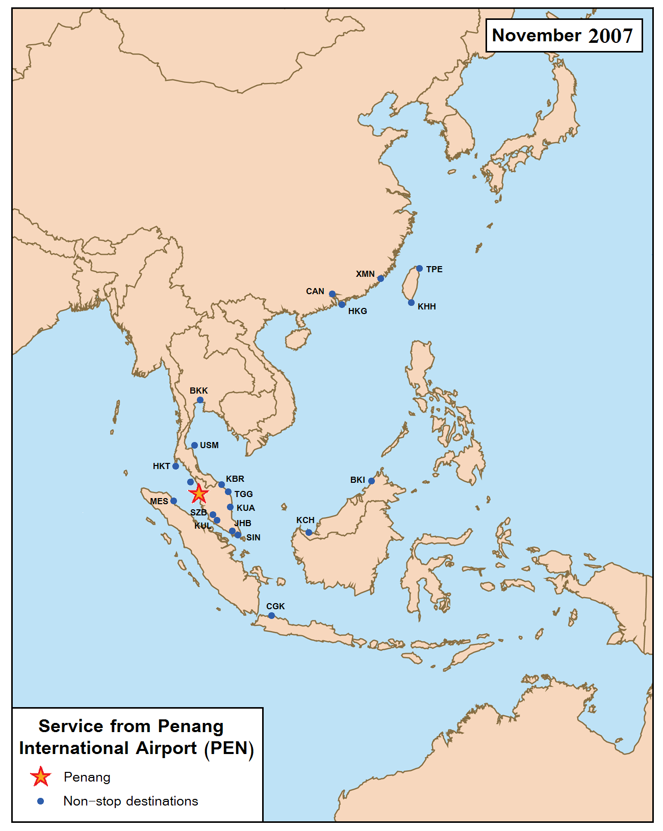 Penang International Airport route map. Base map here: Image:Se asia malaysia.png created by User:Kmusser.